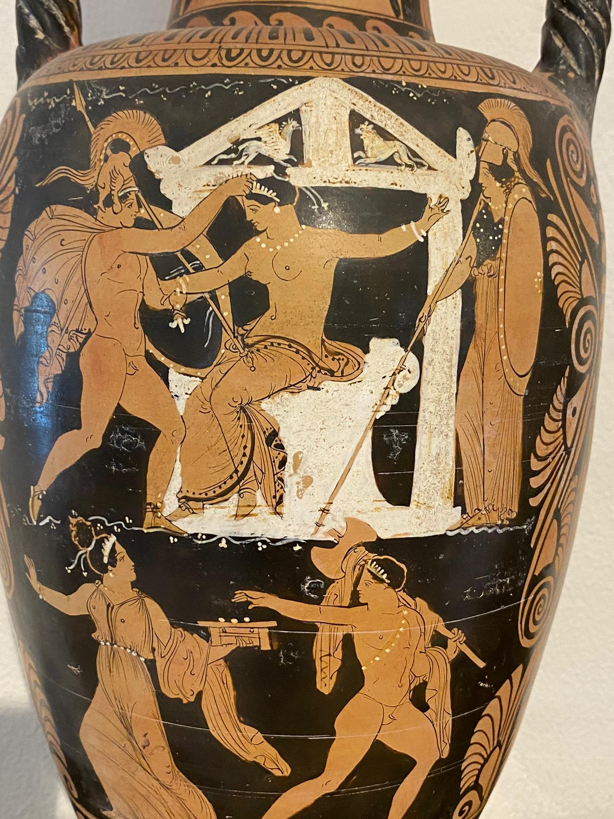 particular of a greek vase in museo campano, capua, italy